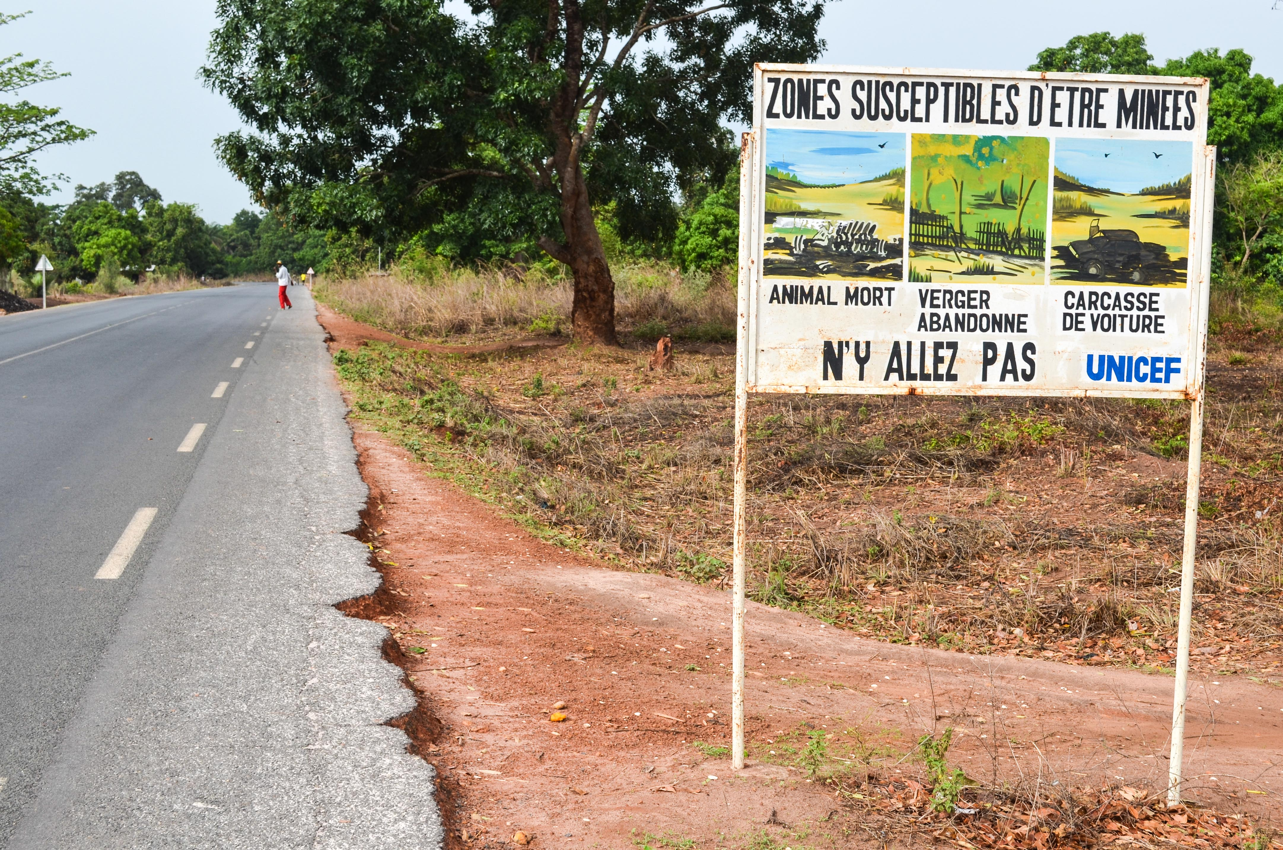 A sign near Ziguinchor, Senegal warning of land mines. The sign reads, "Areas likely to be mined - Dead animals, Abandoned fields, Car frames - Do not go here"